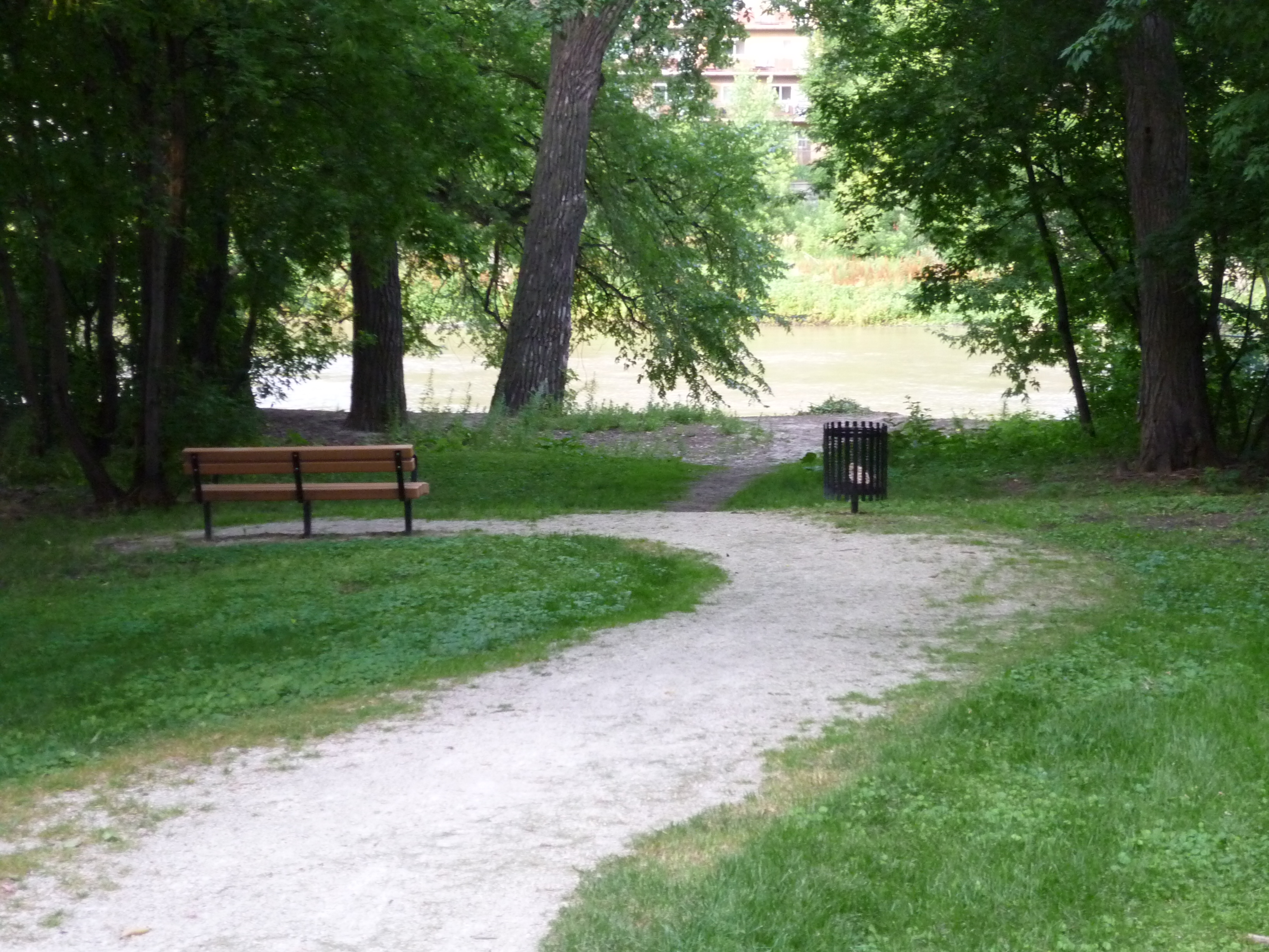 An image of East Blanchard Park, which is in the neighbourhood of Armstrong's Point in Winnipeg, Manitoba. This photograph shows the bench closest to the river and the view of the Assiniboine River from within the park.